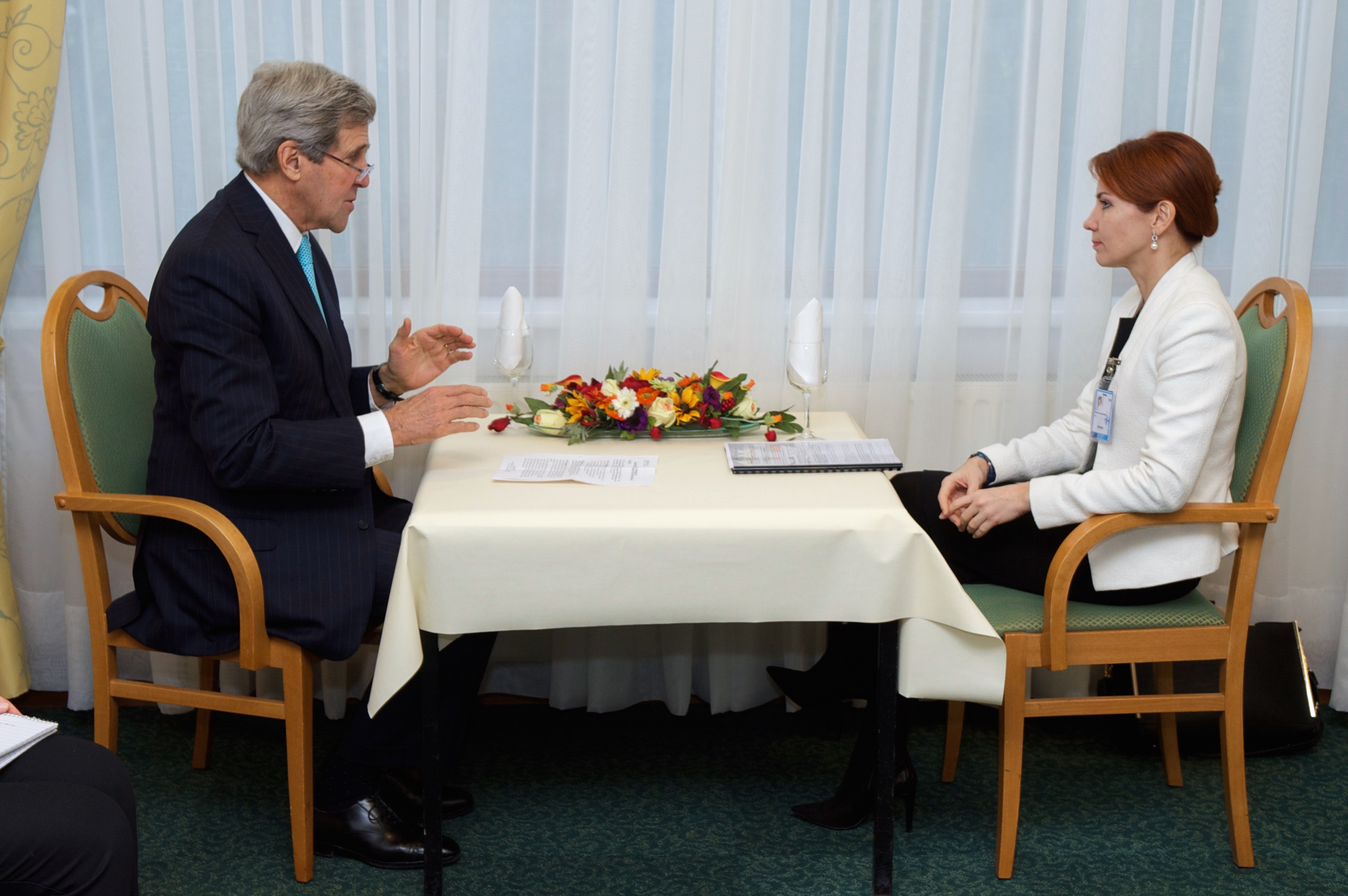 U.S. Secretary of State John Kerry speaks with Estonian Foreign Minister Keit Pentus-Rosimannus during a bilateral meeting on the margins of a series of multinational discussions at NATO Headquarters in Brussels, Belgium.